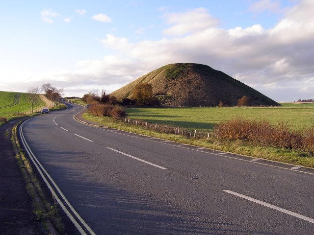 The A4 bypassing Silbury Hill The A4 road follows the course of the old Roman Road south of Avebury. Silbury Hill is a pre-Roman construction and the Roman Road seems to be aligned with it, although it has to take a slight detour from its straight route to bypass the Silbury Hill mound.